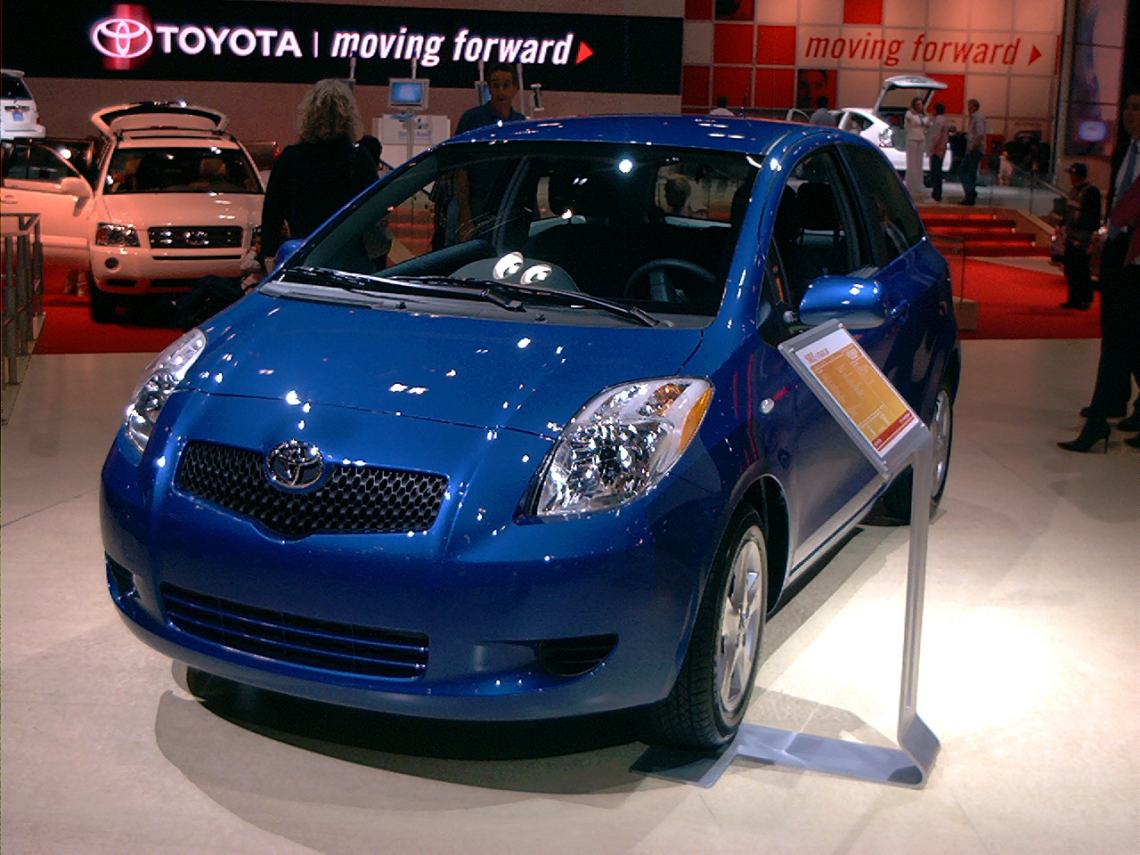 A Toyota Yaris at the 2006 Graeter Los Angeles Auto Show. (Photo taken by Covinan)